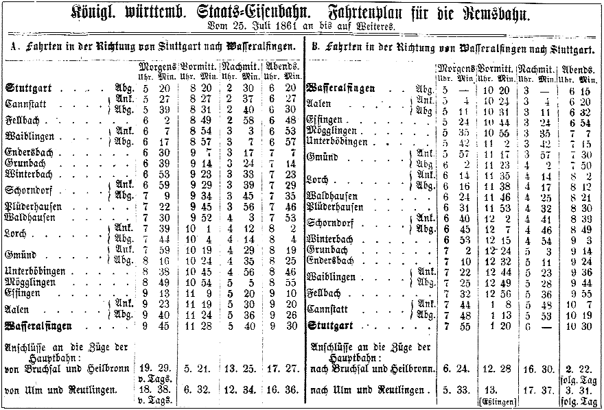 Railway schedule of Remsbahn Stuttgart–Wasseralfingen, Germany, 1861